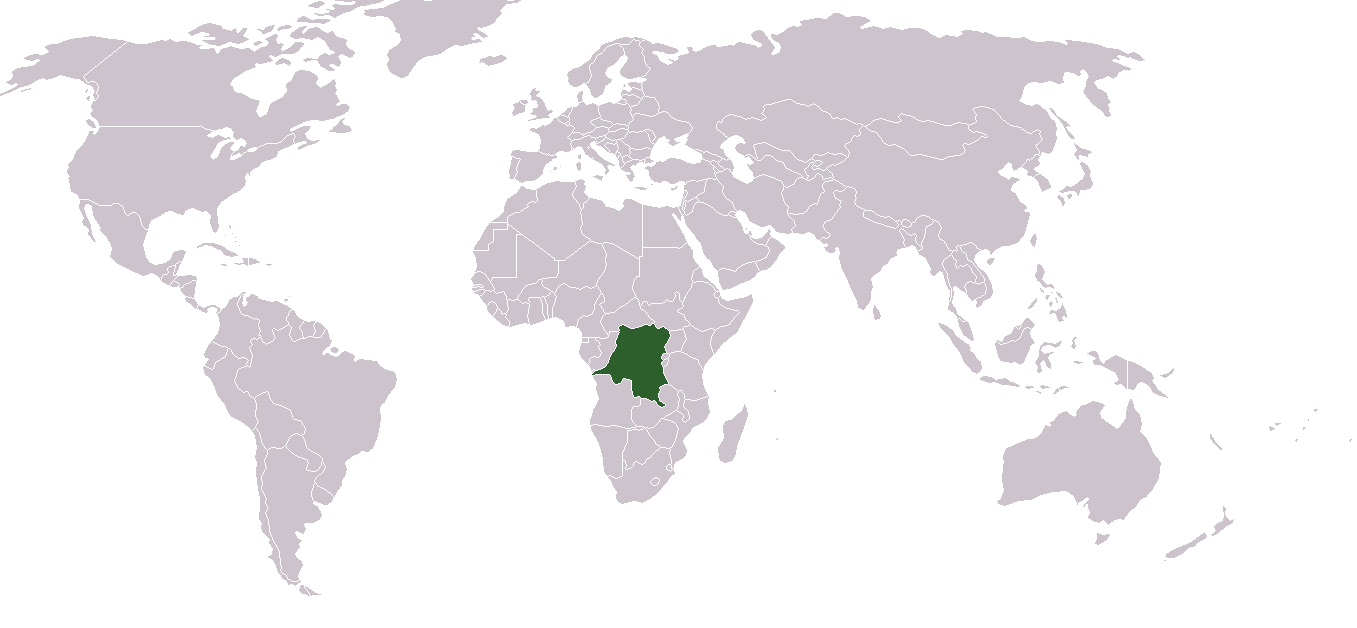 Location map for the Demoratic Republic of the Congo